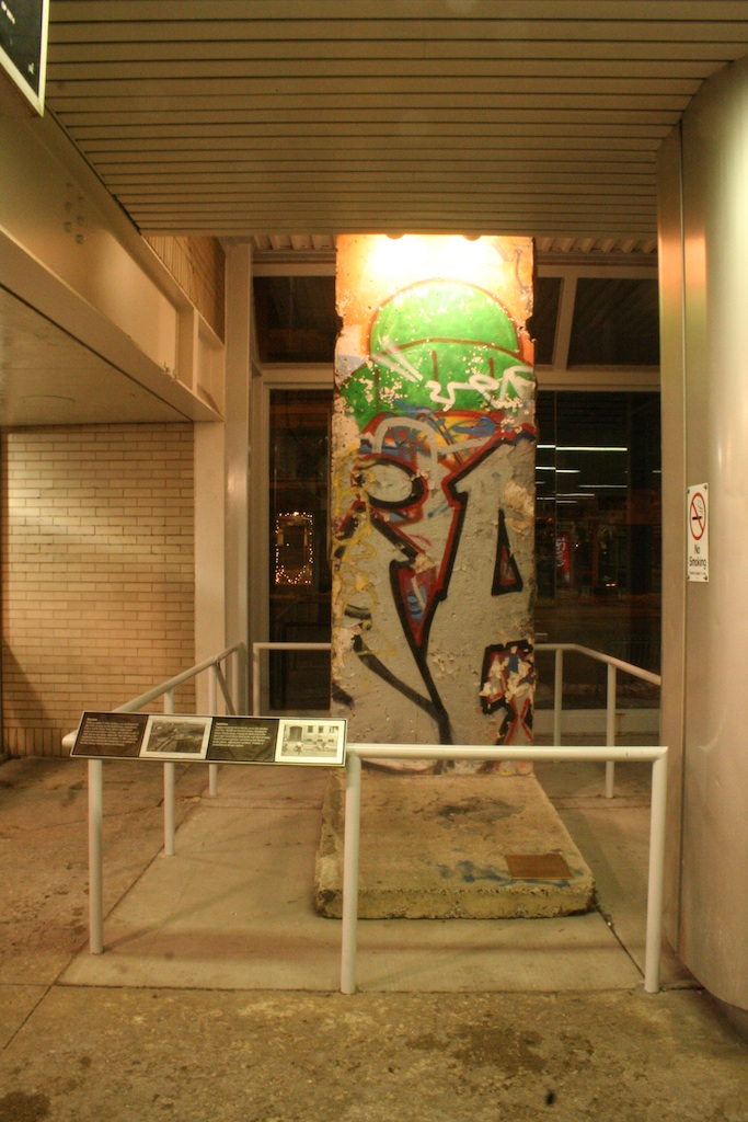 Photograph of a segment of the Berlin Wall, housed in the Western Brown Line station in Chicago, at night.